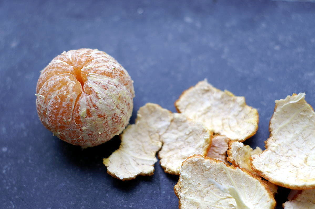 A peeled minneola, bought at Jumbo.